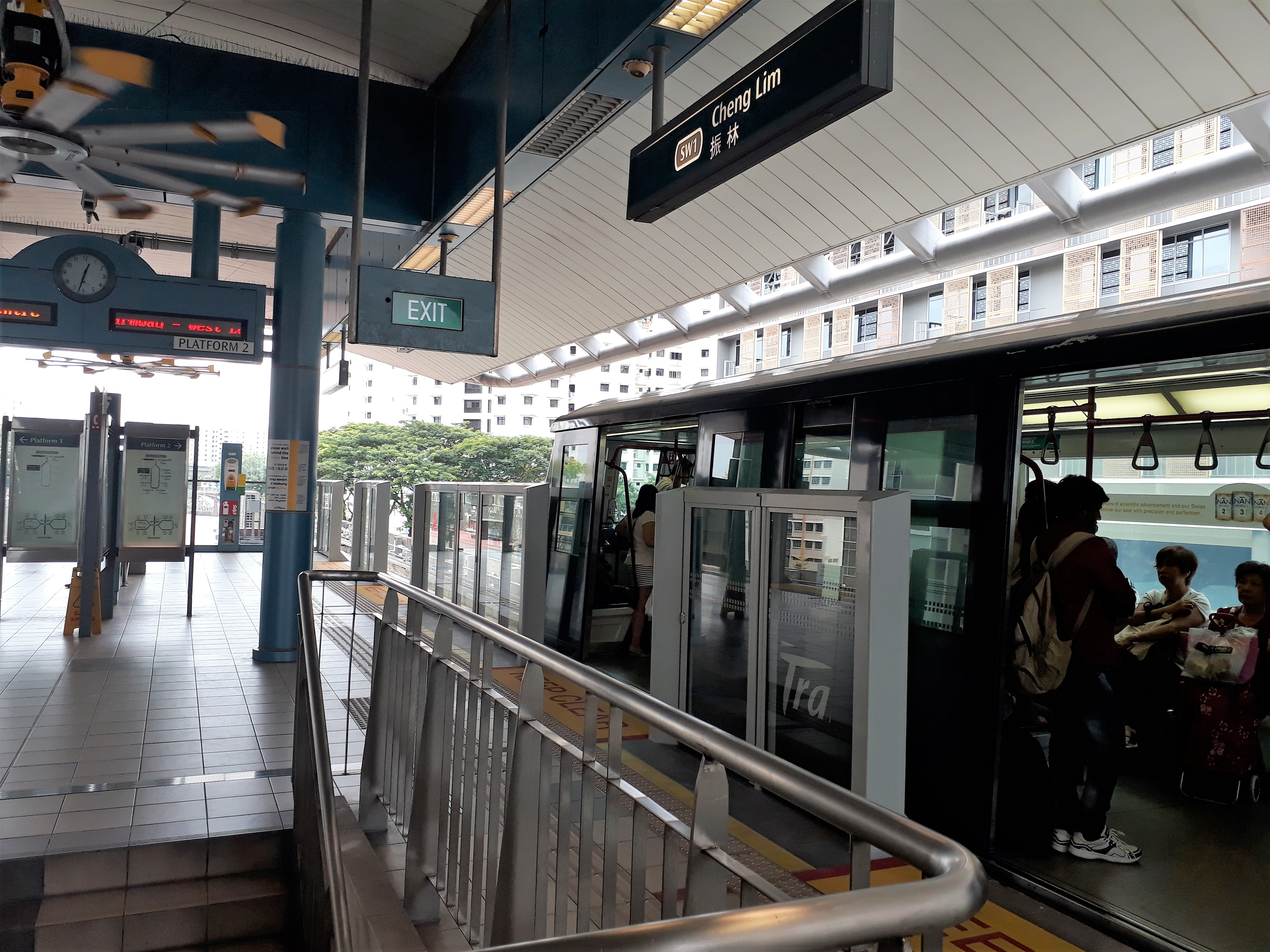 Cheng Lim LRT